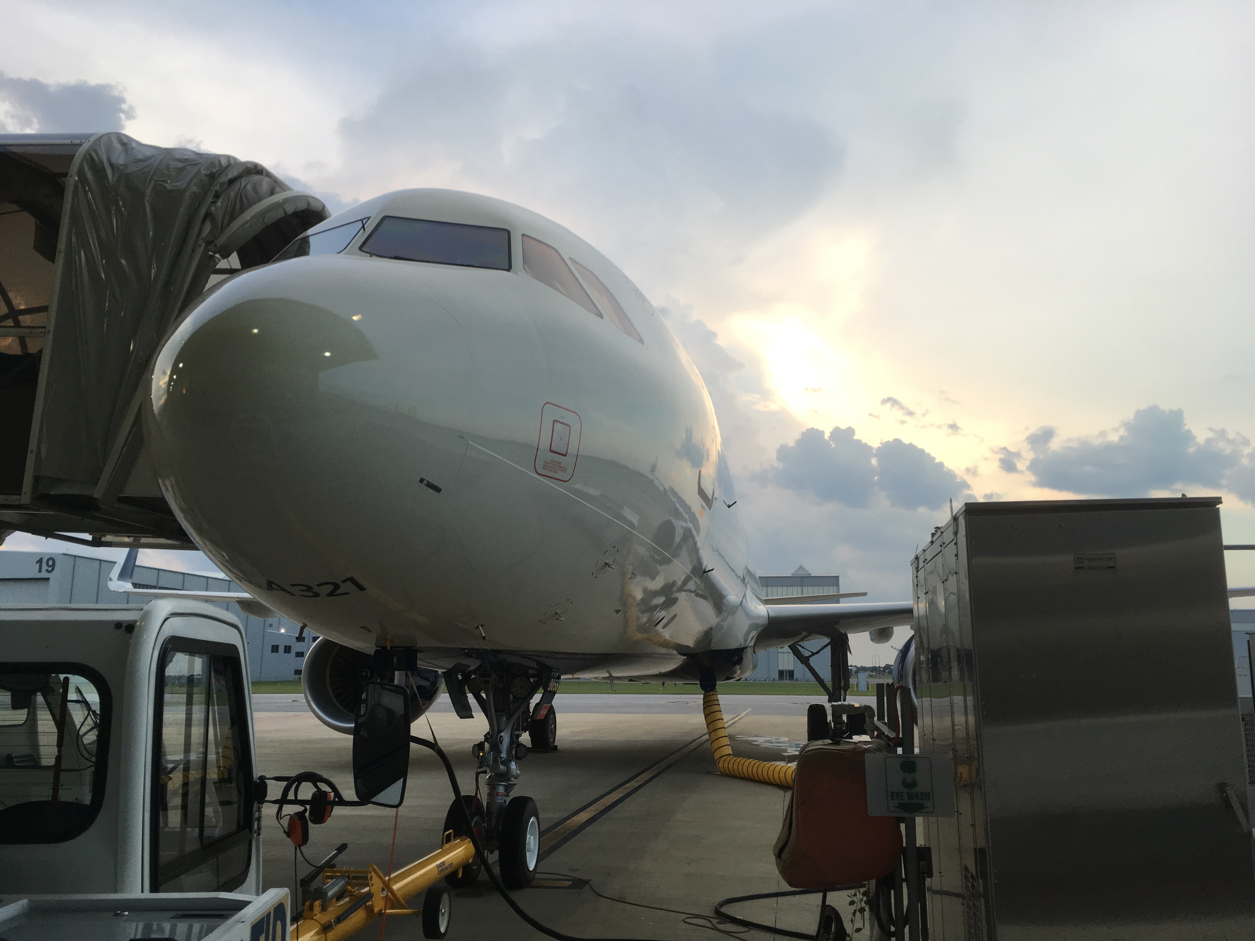 Newly manufactured Airbus A321 for Delta Air Lines on the ground at Airbus's Mobile plant (BFM) in early July 2018.